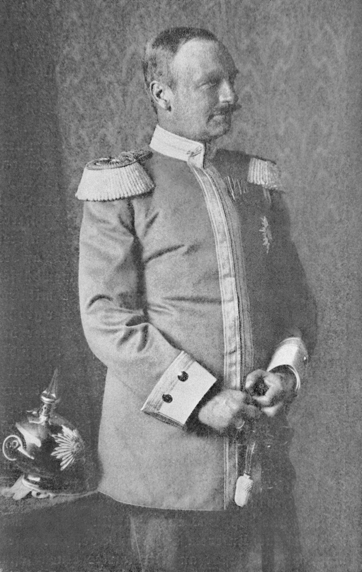 Frederick Augustus III (1865-1932), last King of Saxony (1904-1918) ca. 1905